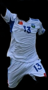 Timor Leste away jersey on 2010 AFF Suzuki Cup at Laos